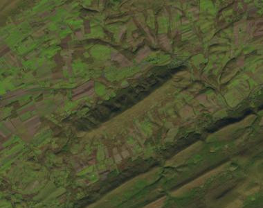 Landsat image of Egg Hill, a ridge in Centre County, Pennsylvania.